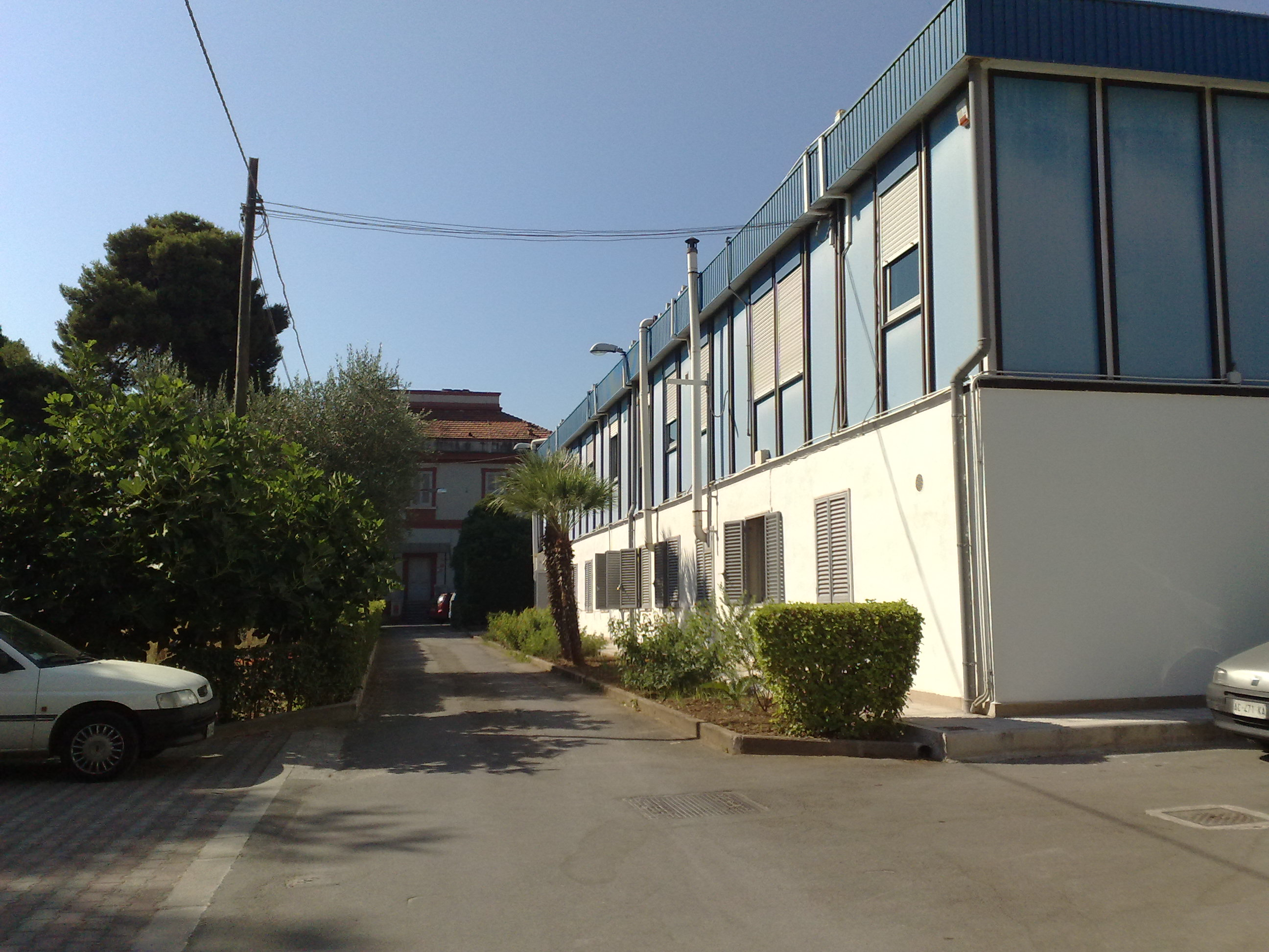 Plant Genetic Institute at Bari, Italy.